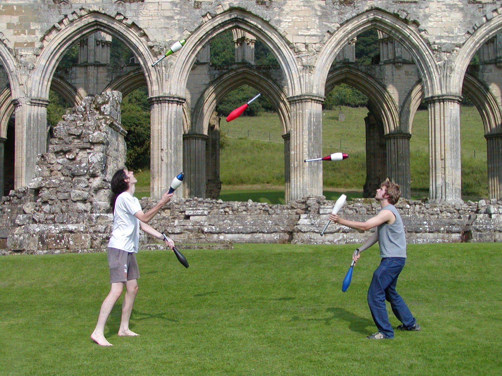 Two Jugglers passing 7 clubs.